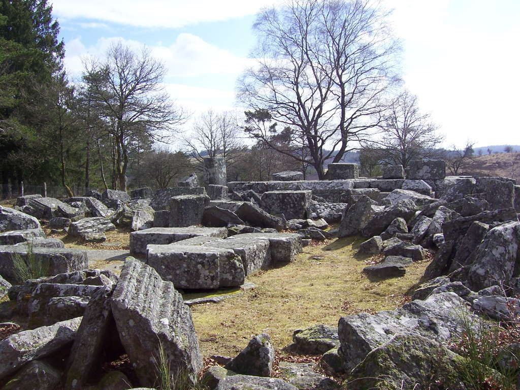 Ruins of a gallo-roman temple on the site of the Cars in the commune of Saint-Merd-les-Oussines.